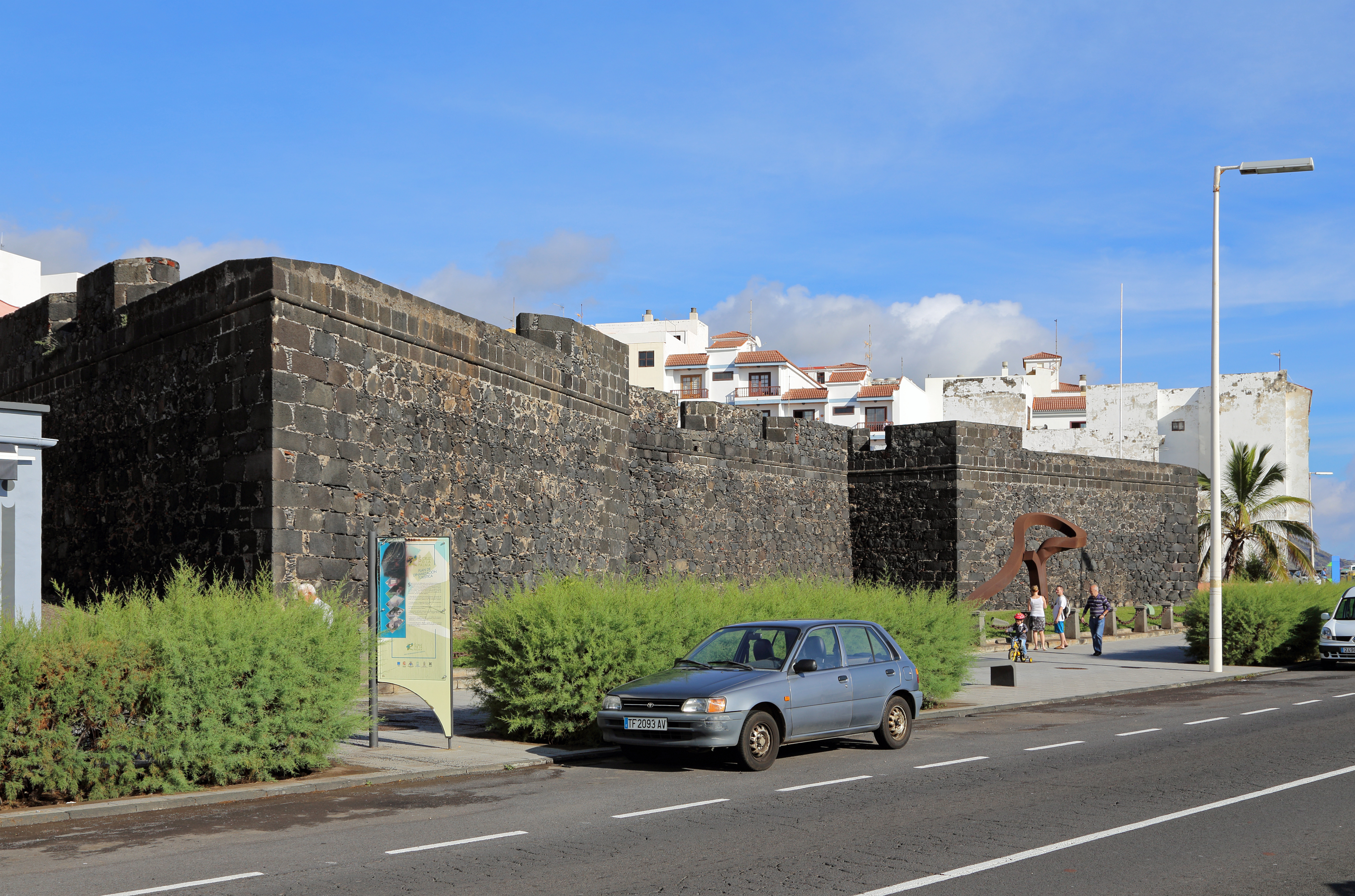 Santa Cruz de La Palma (Canary Islands): the Santa Catalina fort